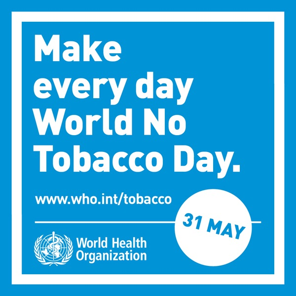 Постер к Всемирному дню без табака